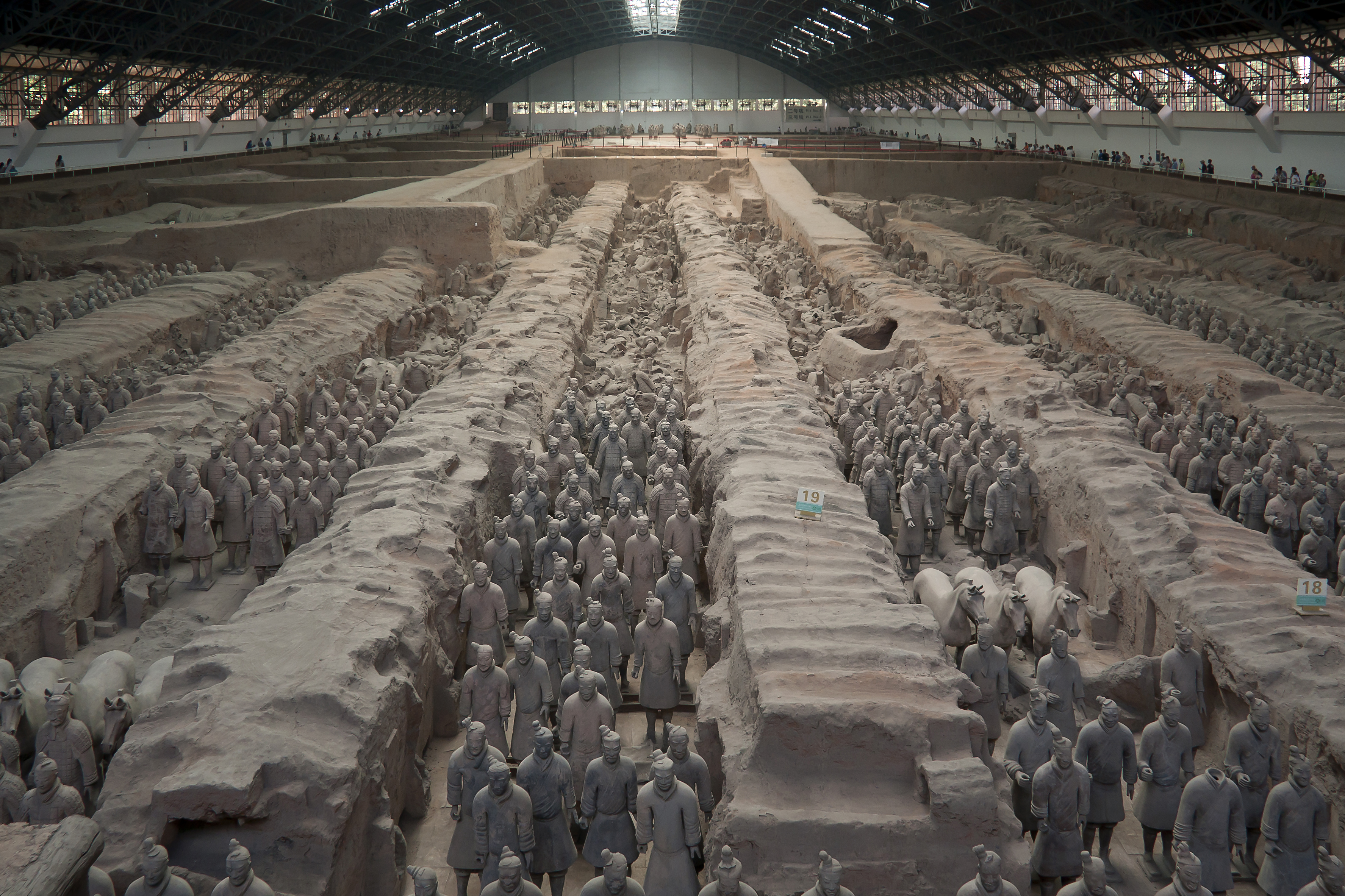 The terracotta army in Xi'an.